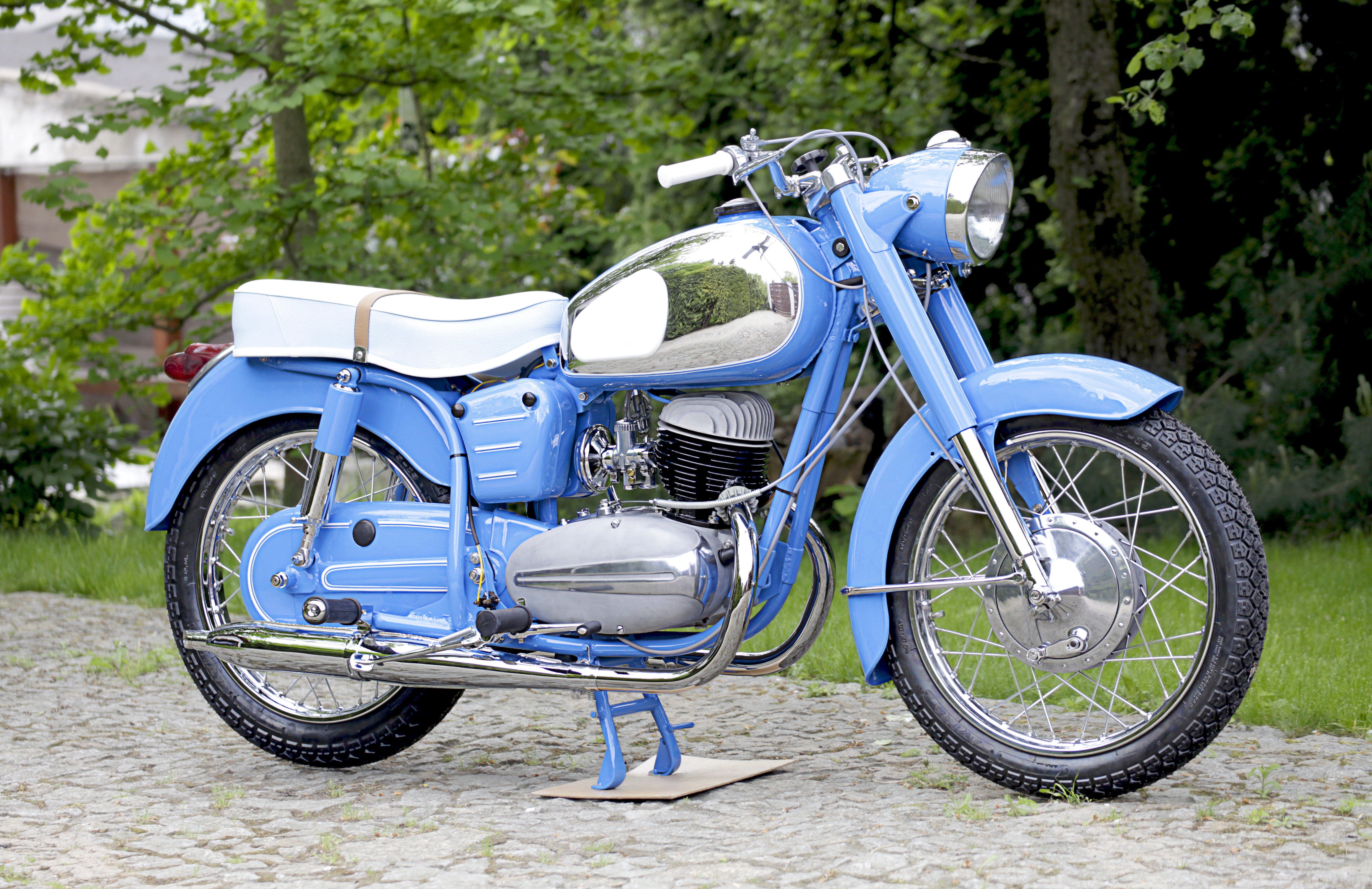 Hungarian motorcycle Pannonia TLF